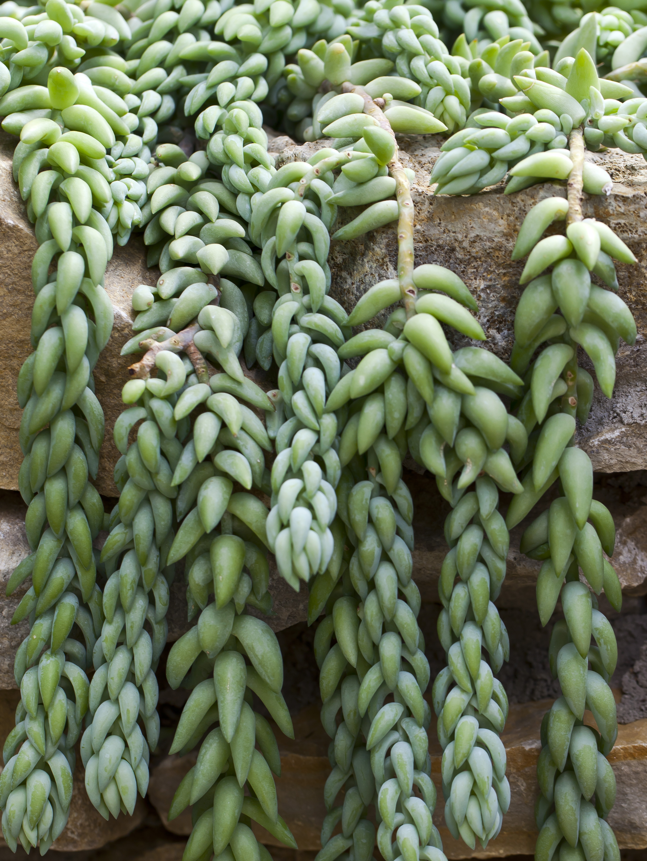 Donkey tail (Sedum morganianum), Tallinn Botanic Garden, Estonia